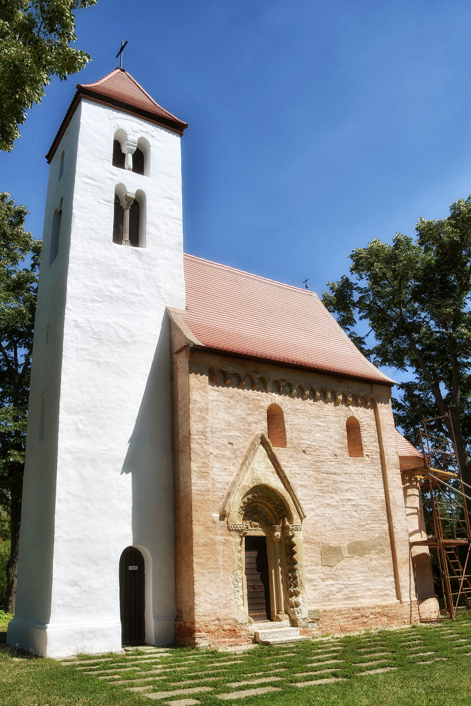 The St. Michael's Church in Csempeszkopács, Hungary